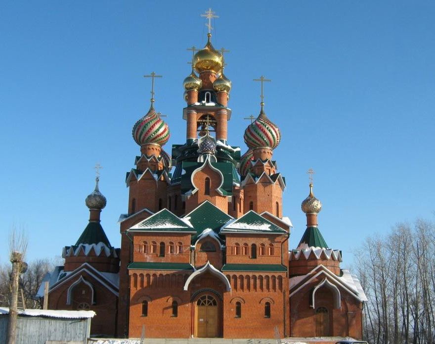 Church in the city of Semiluki Metrophanes Voronezh.